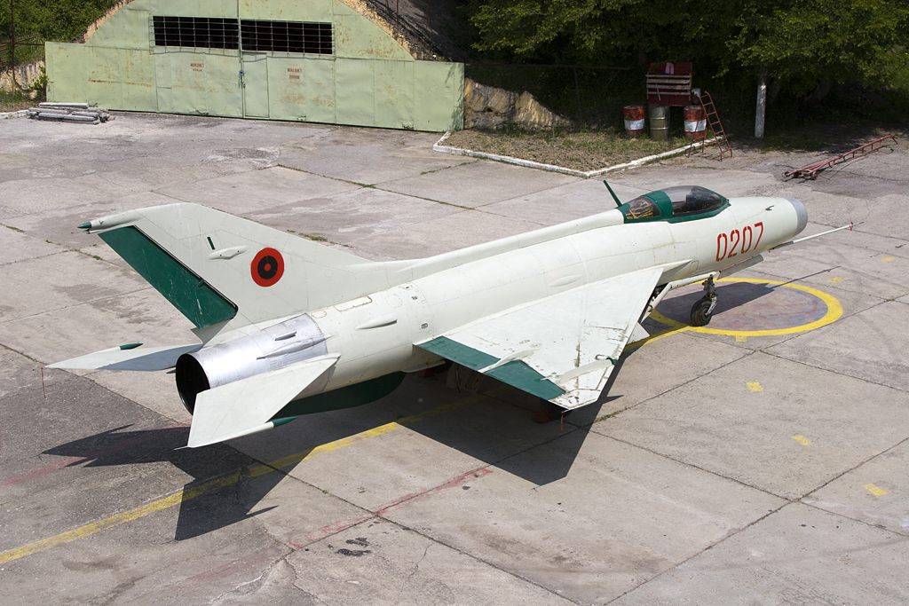 One of only twelve F7s that served the Albanian Airforce. Two are at Tirana Airport, the others at Gjader.